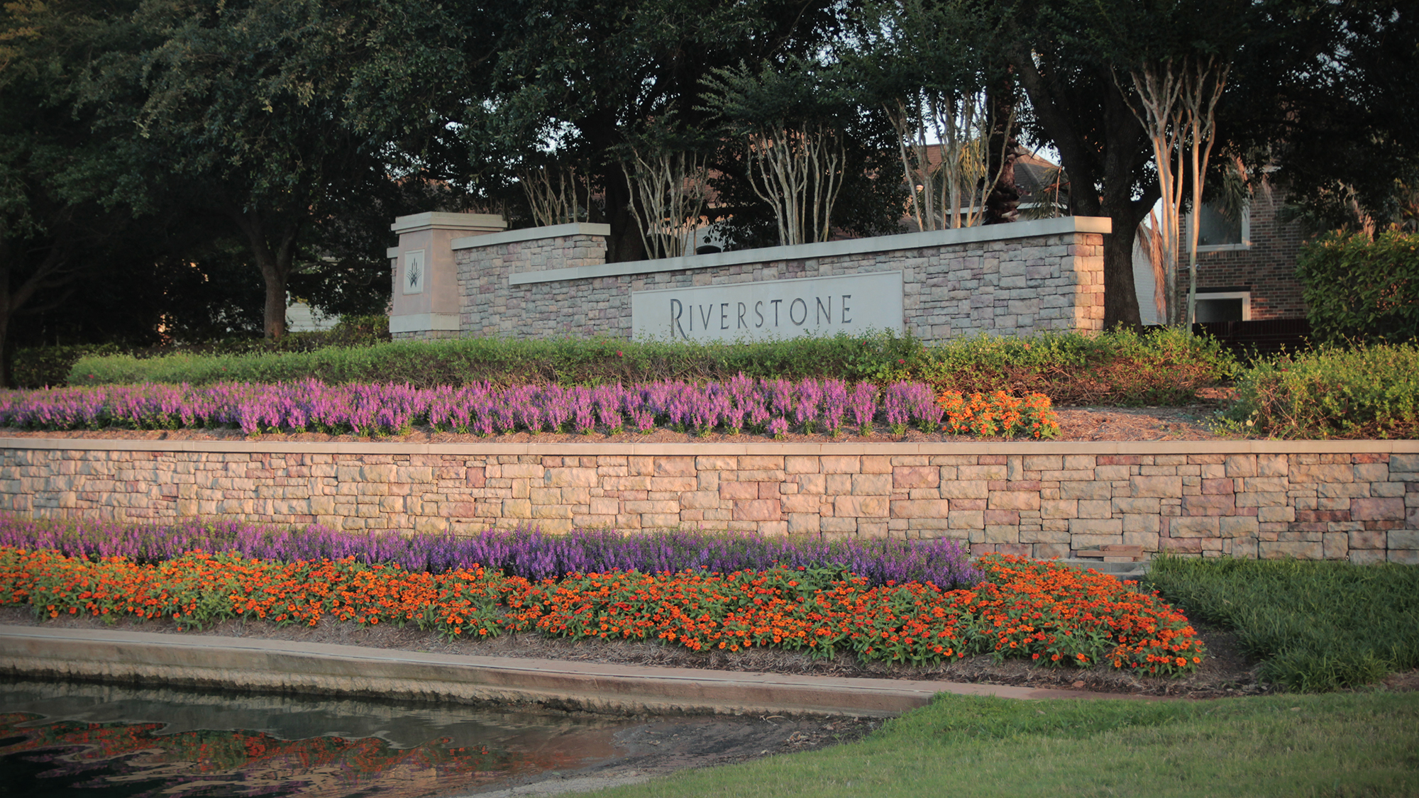 Riverstone in Fort Bend County, Texas - most sections are unincorporated while some are in t he Missouri City city limits